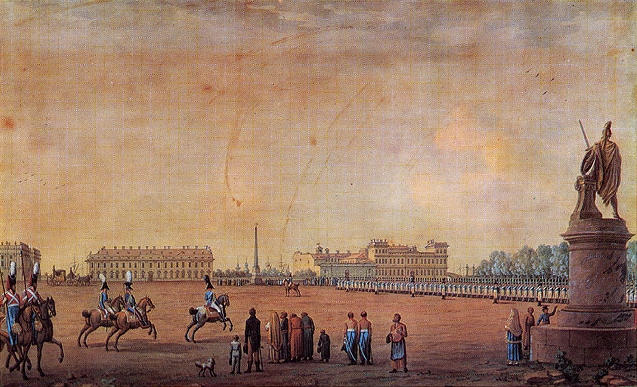 To the right, Alexander Suvorov Monument (inaugurated in 1801; sculptor, М. Kozlovsky; casted by V. Yekimov). In the foreground, beyond the Field of Mars (Tsaritsyn Lug, Tsarina's Meadow); to the left, a corner of the Marble Palace (1768—85, designed by A. Rinaldi); close to it, the administrative building of the Marble Palace (1780—88, designed by P. Yegorov), the obelisque erected to the memory of Count Rumiantsev's victories (1799, designed by B. Brenna); to the right, the house of F. Groothen—N. Saltykov (1784—88, designed by G. Quarenghi), and I. Betsky's house (construction went on from 1784; designed supposedly by I. Starov). In the background, to the right, the Summer Gardens.